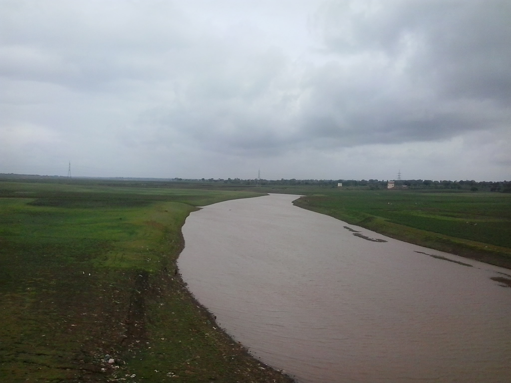 River Malaprabha near Bailhongal in Karnataka, India